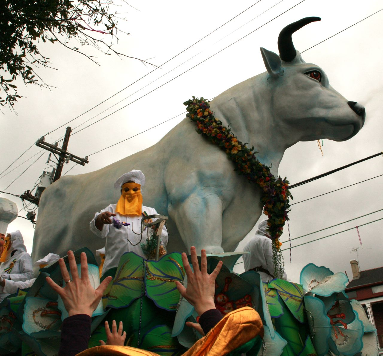 New Orleans Mardi Gras 2007: Rex parade on St. Charles Avenue. The tradtional "Boeuf Gras" or fatted cow; a float representation replaced the live cow in the parade generations ago.